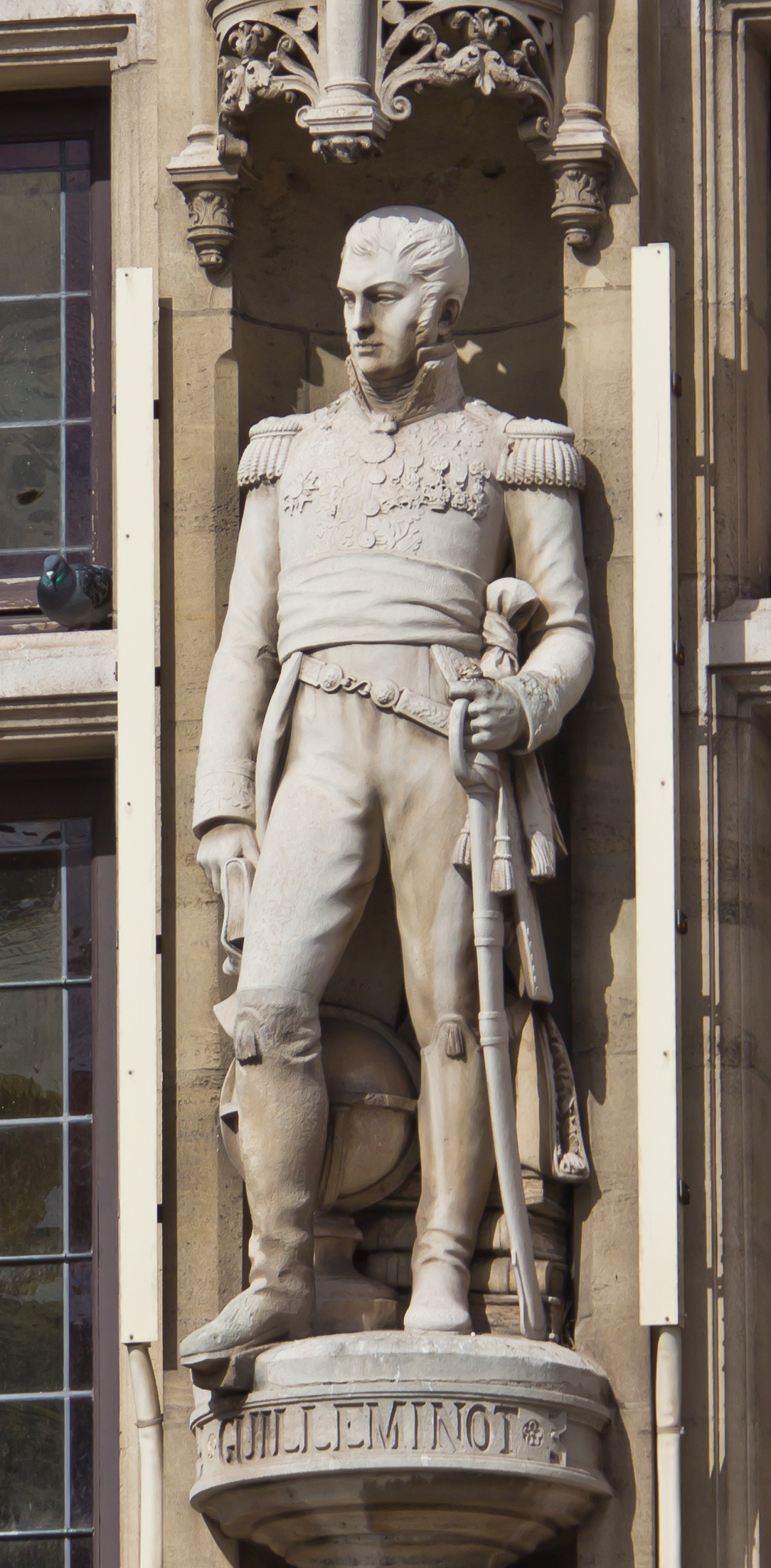 Town hall of Dunkerque - statue of Armand Charles Guilleminot - detail